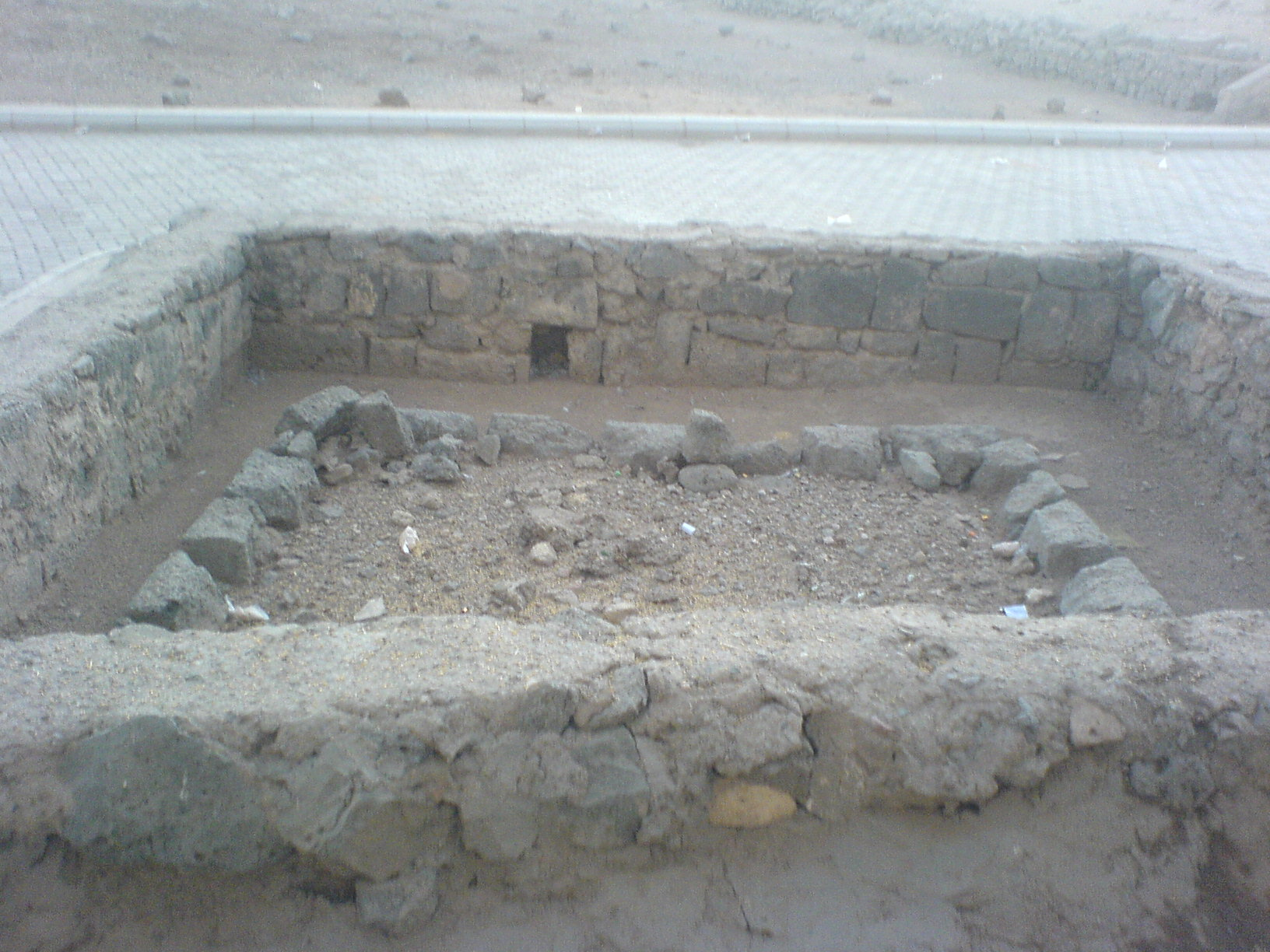 Picture of the grave of Ummul Baneen